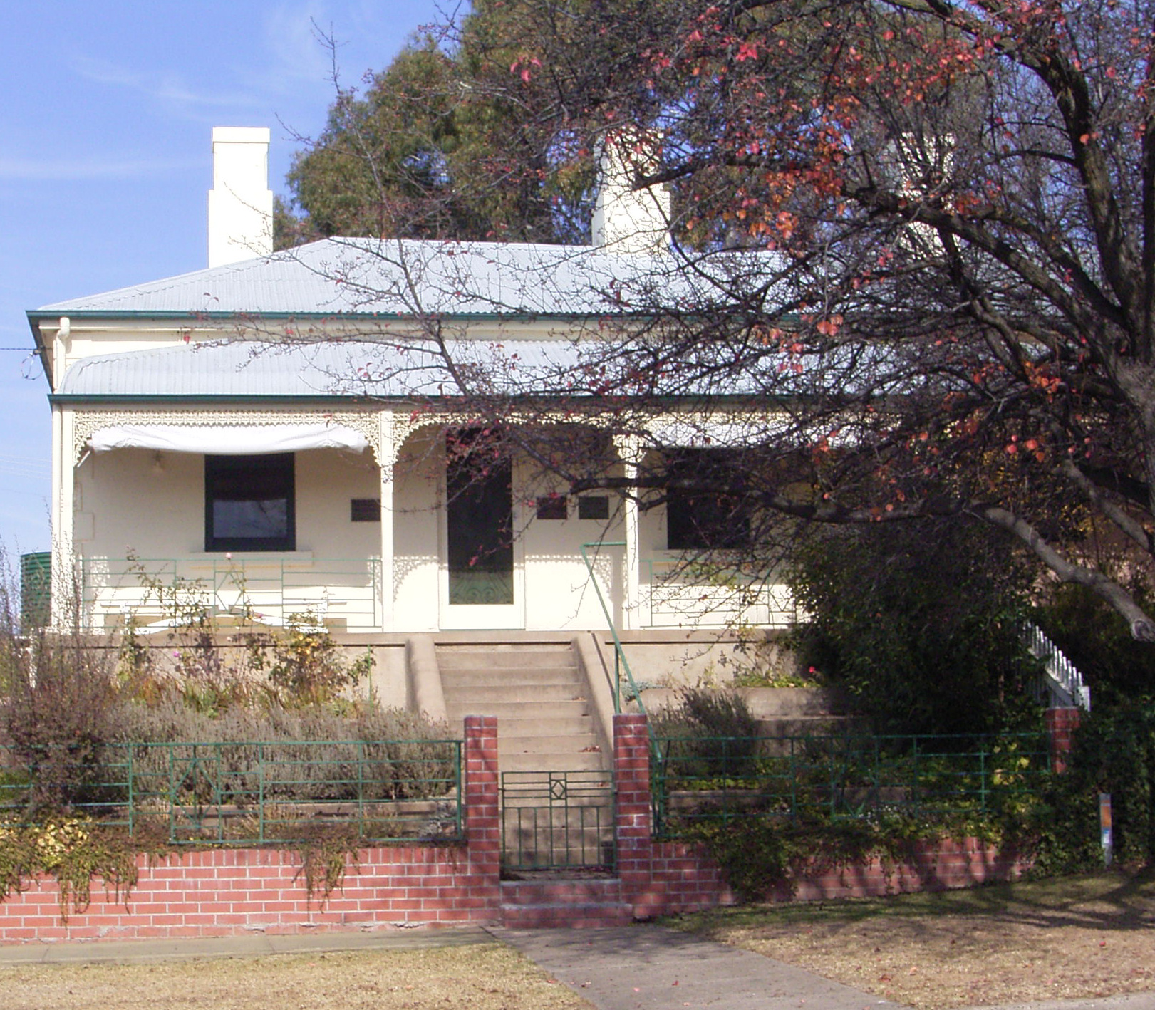 Home of Ben Chifley, Prime Minister of Australia from 1945 to 1949, in Busby Street, Bathurst, New South Wales. This modest Victorian cottage was the home of Australia’s popular post war prime minister throughout his parliamentary career. The house is now a house museum owned by Bathurst City Council.